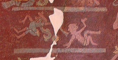 Small detail of a mural at the Tepantitla compound at Teotihuacan showing what some researchers believe is a rendition of a traditional Mesoamerican ballgame on an open-ended ballcourt.